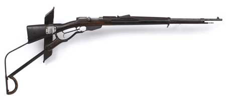 A Dutch periscope (trench) gun. 1916.